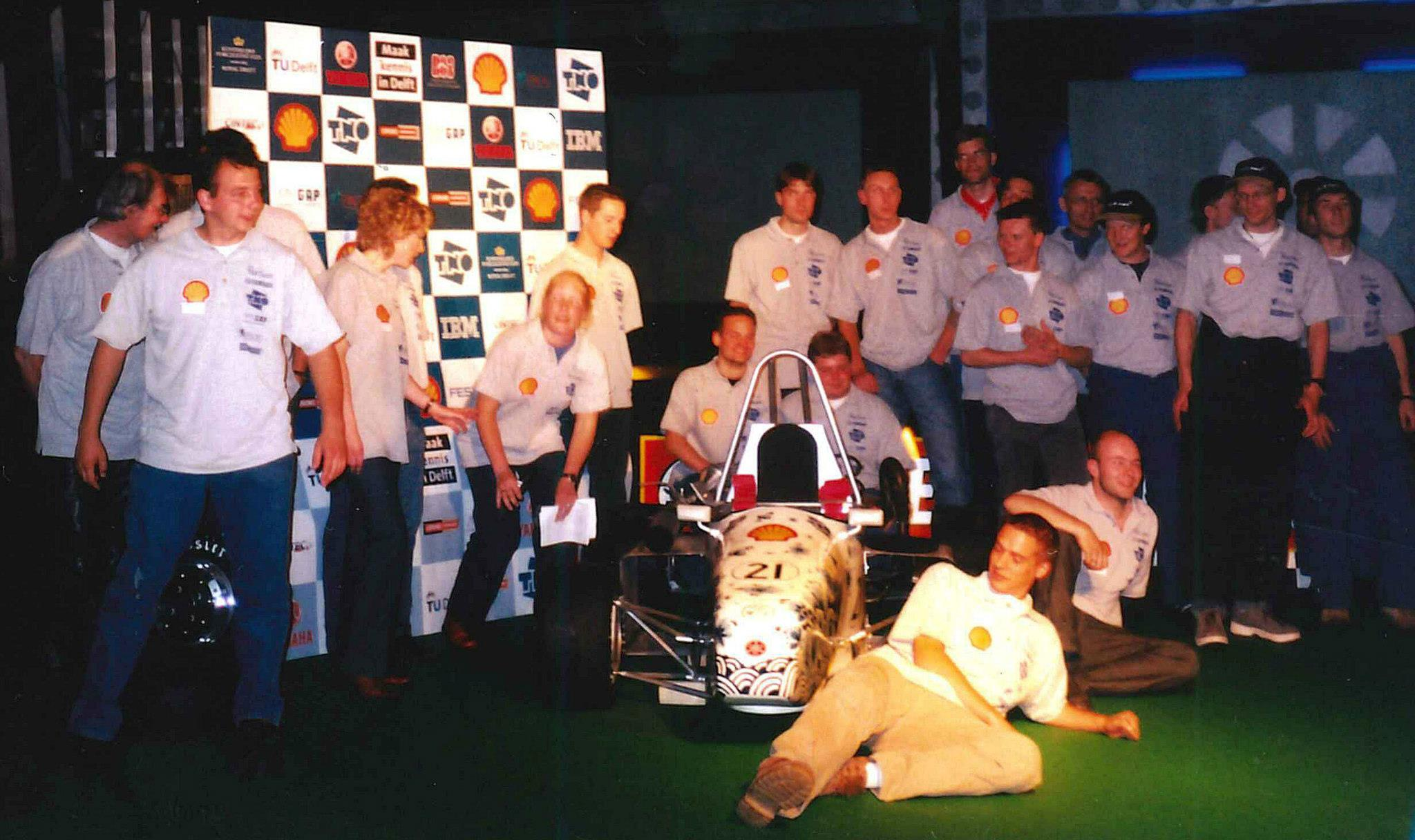 Posing in front of the DUT01